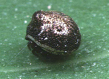 female Phoroncidia ryukyuensis from Okinawa.